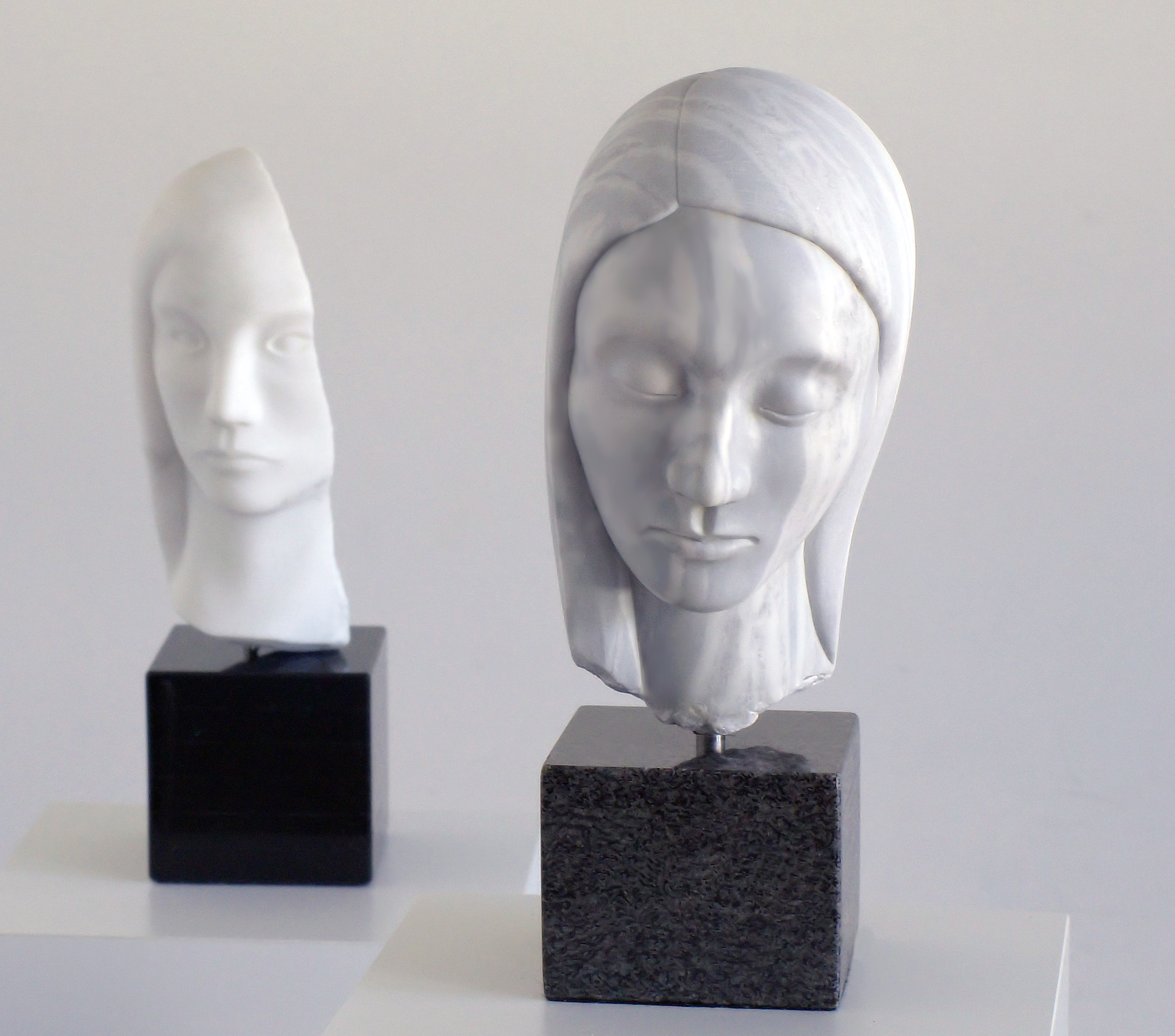 Two of marble sculptures by Japanese artist Minako Yoshino, "Tears (right)" & "Missing (left)" exhibited at cafe nowhere in Toyama city, Toyama, Japan. I got an approval from Ms.Yoshino to post on Wikimedia Commons.